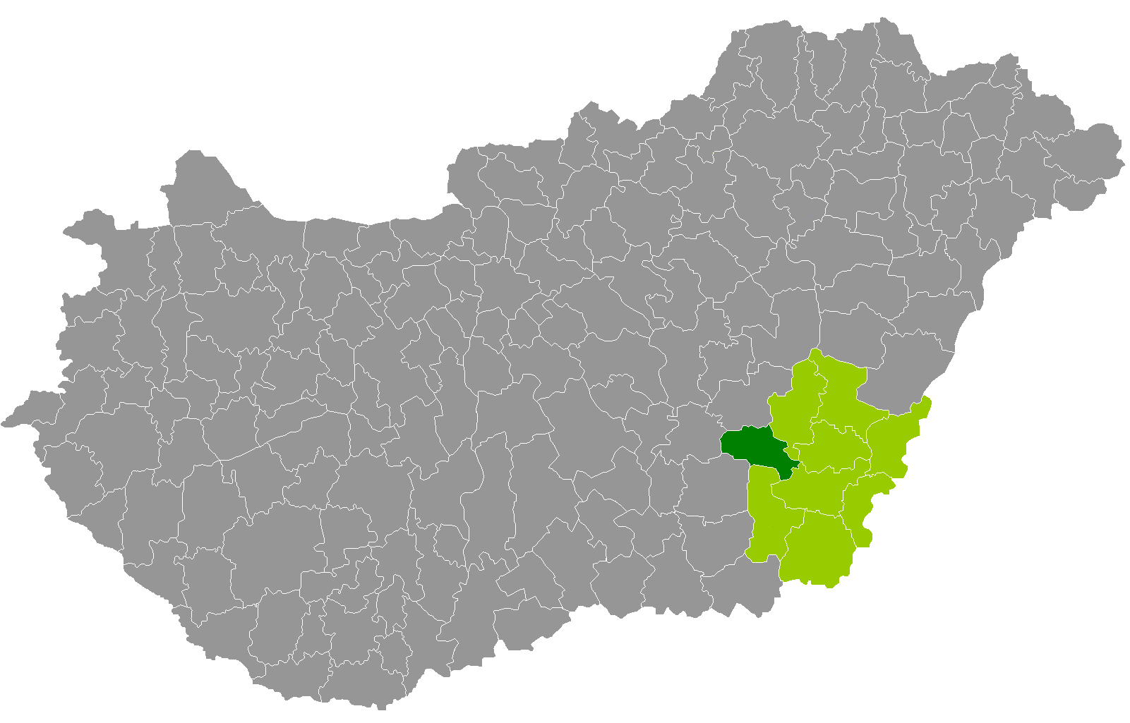 Location of Szarvas District, Békés, Hungary